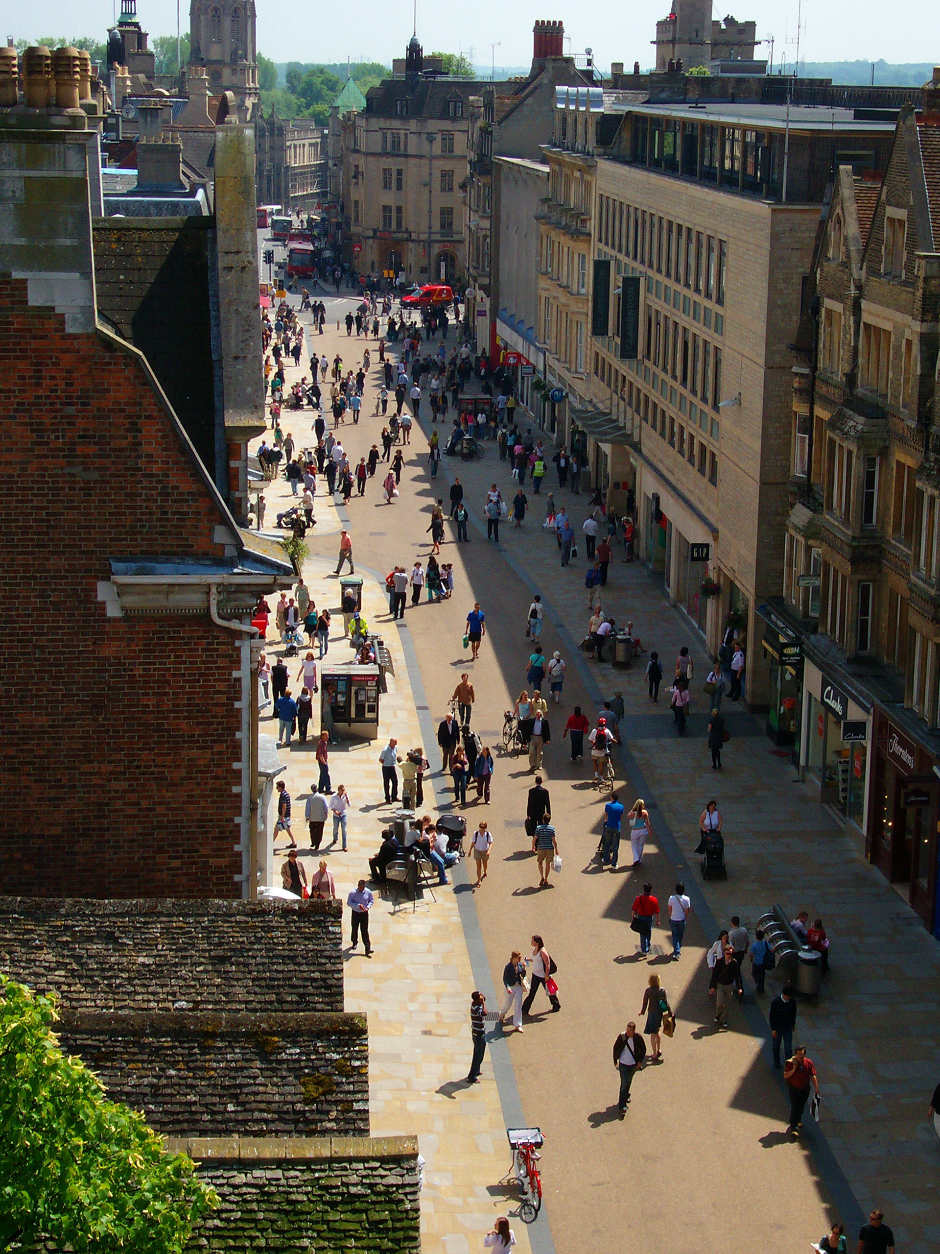 Cornmarket Street, Oxford (not the High Street) - View over Oxford rooftops